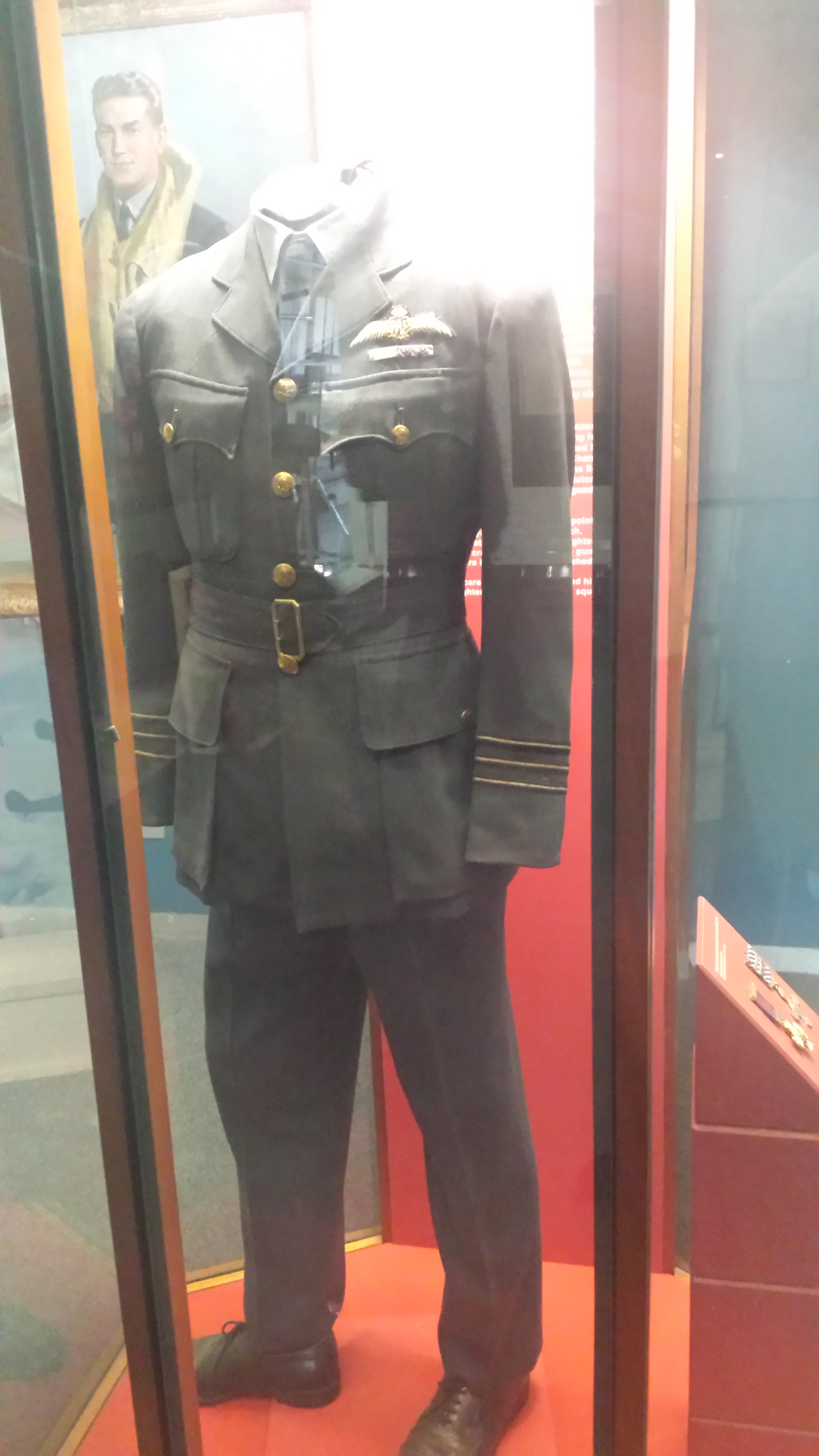 Uniform of Brendan Finucane; A RAF fighter ace killed in 1942